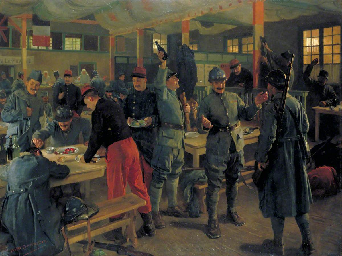 Cantine Franco-Britannique, Vitry-le-Francois by Isabel Codrington (now at Imperial War Museums)